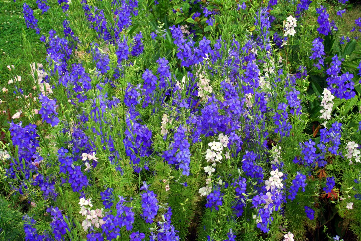 Patch Blue Flowers